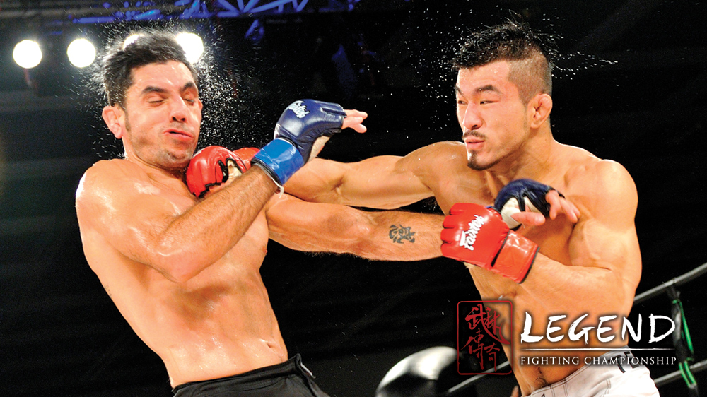 Adam Shahir Kayoom of Malaysia versus Bae Myung Ho of South Korea